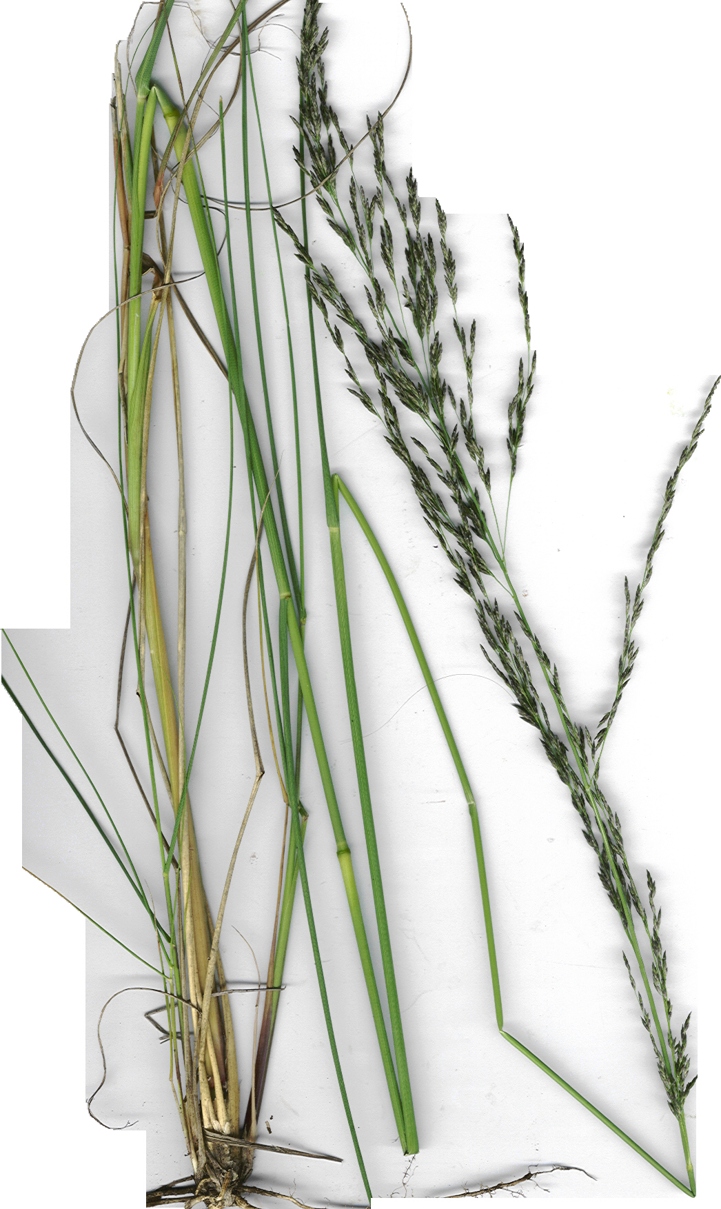 Eragrostis grandis (plant). Location: Maui, Pohakuokala Gulch